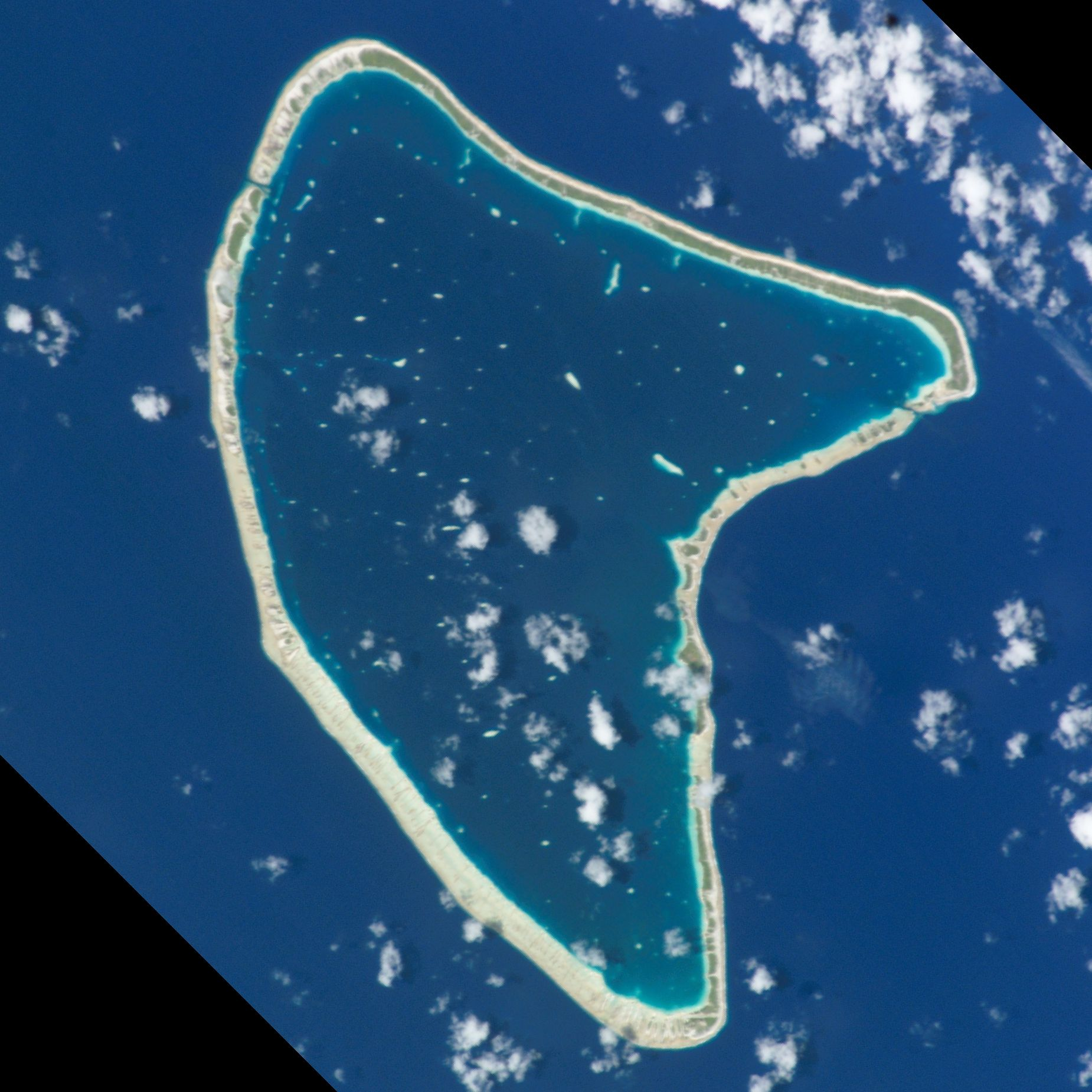 NASA astronaut image of Aratika Atoll (Tuamotu Archipelago, French Polynesia) in the Pacific Ocean